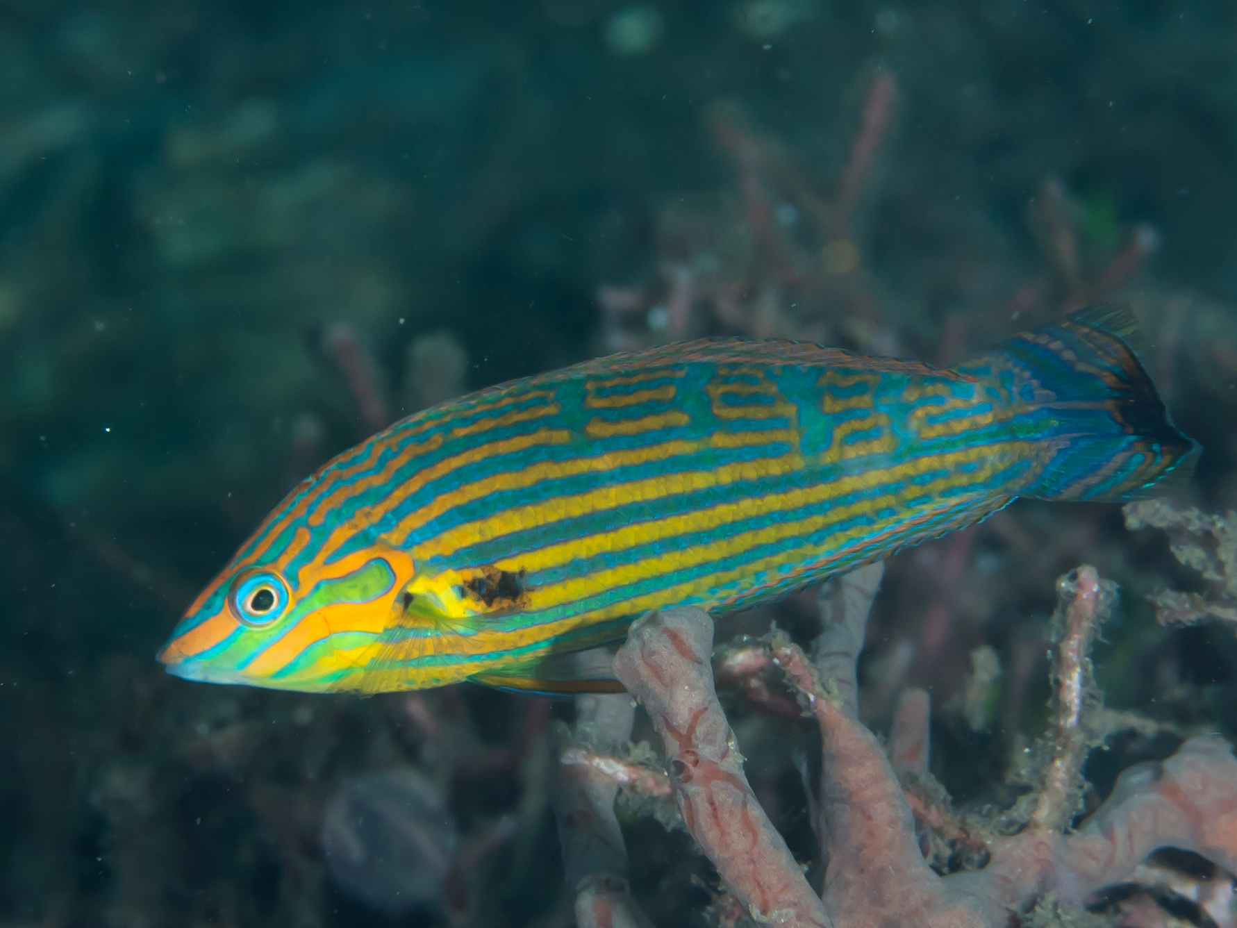 Lembeh, Indonesia - Tailspot wrasse (Halichoeres melanurus)